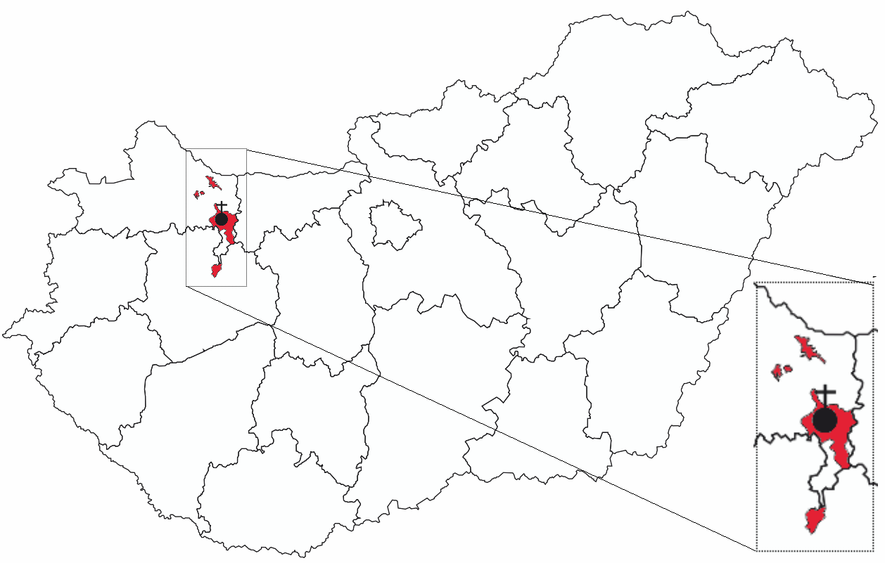 The map of the Benedictine Territorial Abbey of Pannonhalma, Hungary. The abbey is the direct subject of the Holy See.